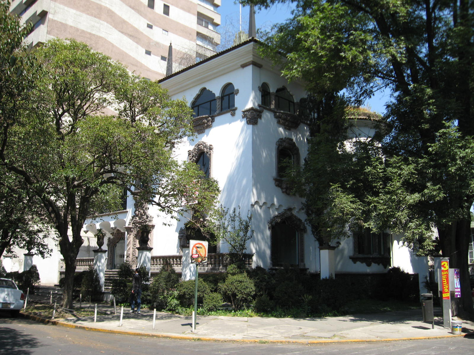 Older house on Urbana Street in the Polanco neighborhood of Mexico City. Behind it is a multi-story skyscraper